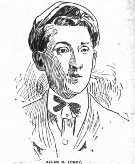 Ice hockey player Allan Loney of the Maxwell Hockey Club.